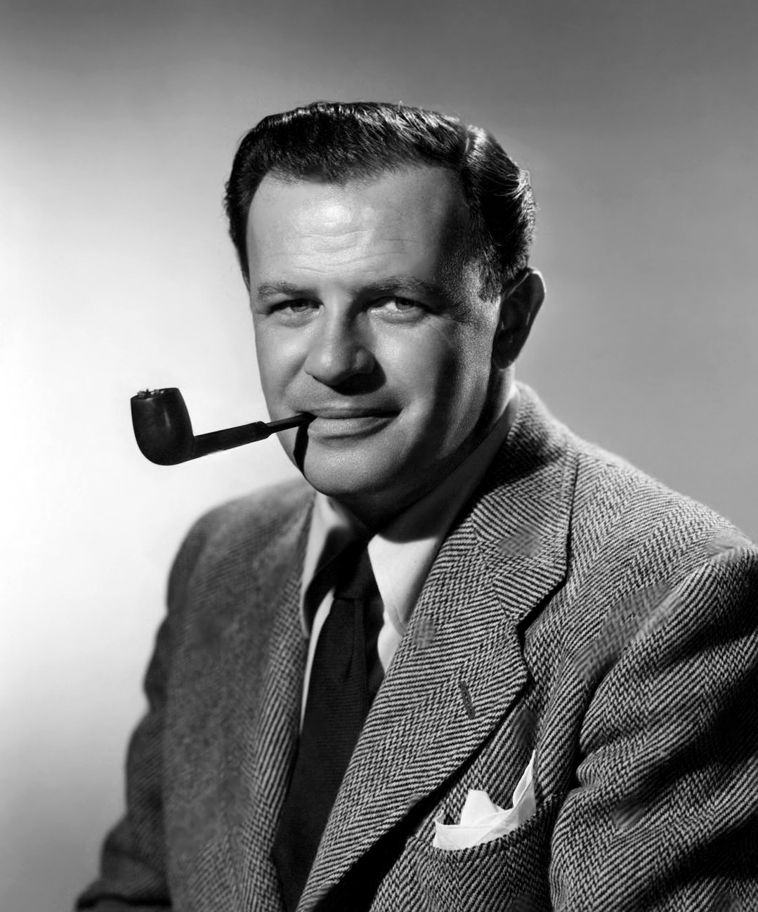 Publicity photo of American filmmaker Joseph L. Mankiewicz.